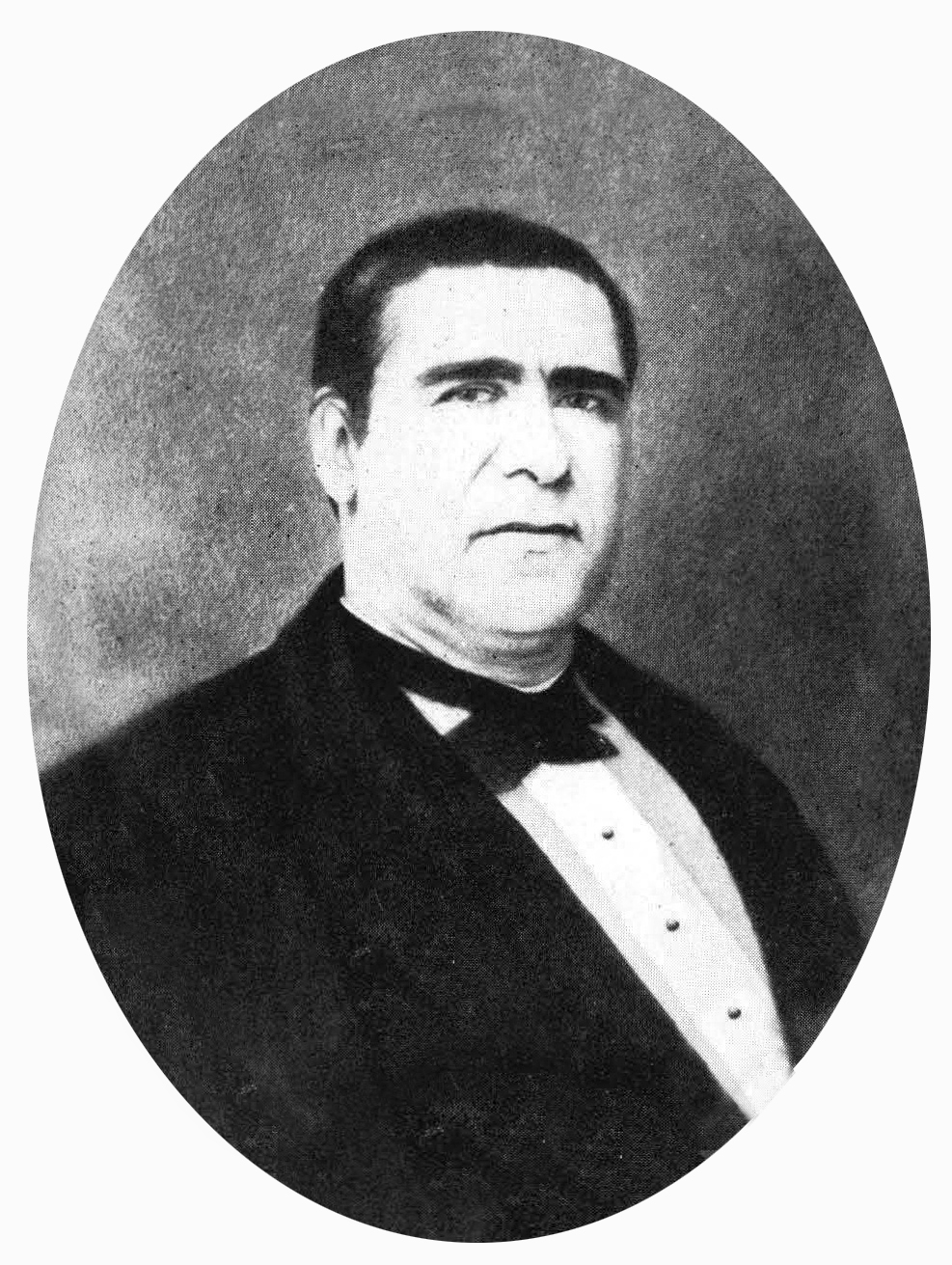 Alexander Salmon (1820–1866) was an English-Jewish merchant that became secretary to Queen Pōmare IV of Tahiti. He fell in love with her adoptive sister Taimai. Inaccurately identified as William Stewart.